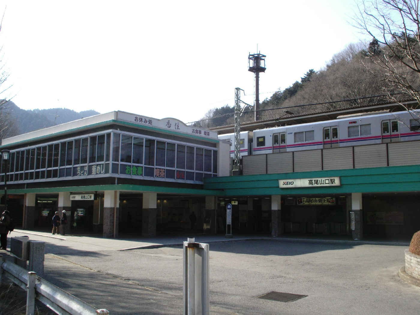 Takaosanguchi Station before rebuilding